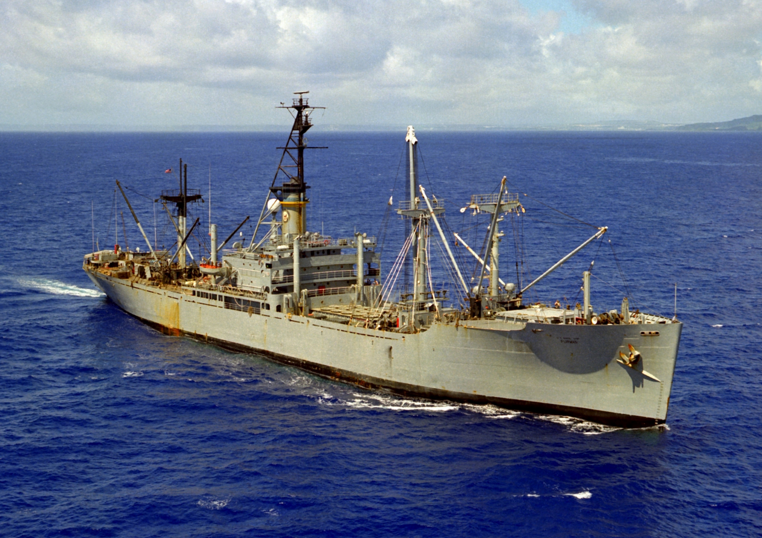 The U.S. Military Sealift Command cable transport ship USNS Furman (T-AK-280) underway in Agana Bay, Guam. The ship had been launched as SS Furman Victory, a Maritime Commission type VC2-S-AP5 hull, and had been chartered by civilian operators from 1946 to 1953 when it was laid up in the National Defense Reserve Fleet, James River Group, Virginia (USA). It was acquired by the U.S. Navy on 18 September 1963 and placed in service with the Military Sea Transportation Service (MSTS) as USNS Furman (T-AK-280) until being retired in 1986.